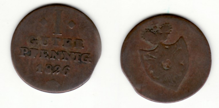 Coin of the Principality of Lippe: 1 Guter Pfennig, 1825